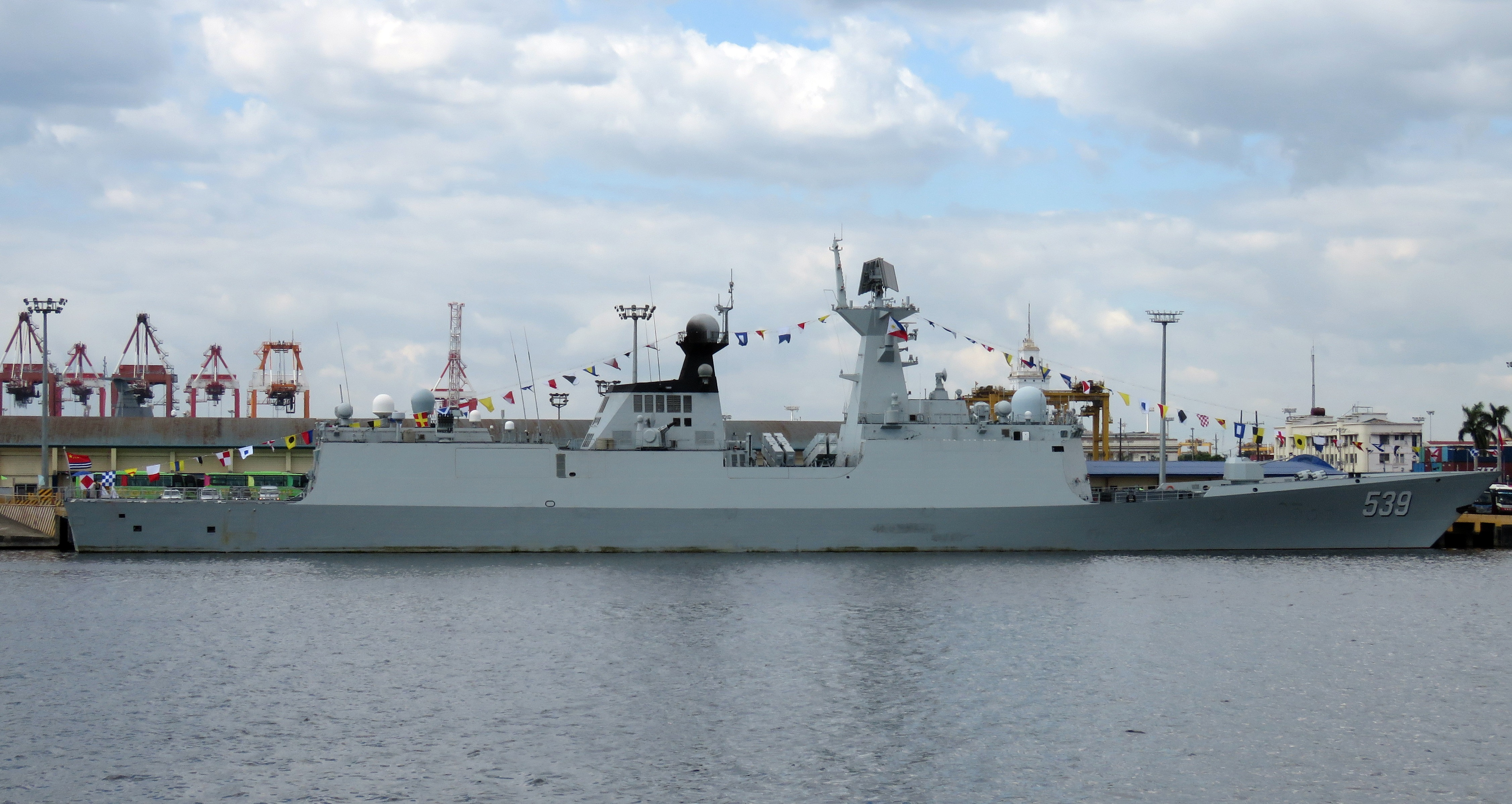 A side view of the Wuhu (539), a Type 054A Frigate of the People's Liberation Army Navy (PLAN). Photo taken at the Manila South Harbor.